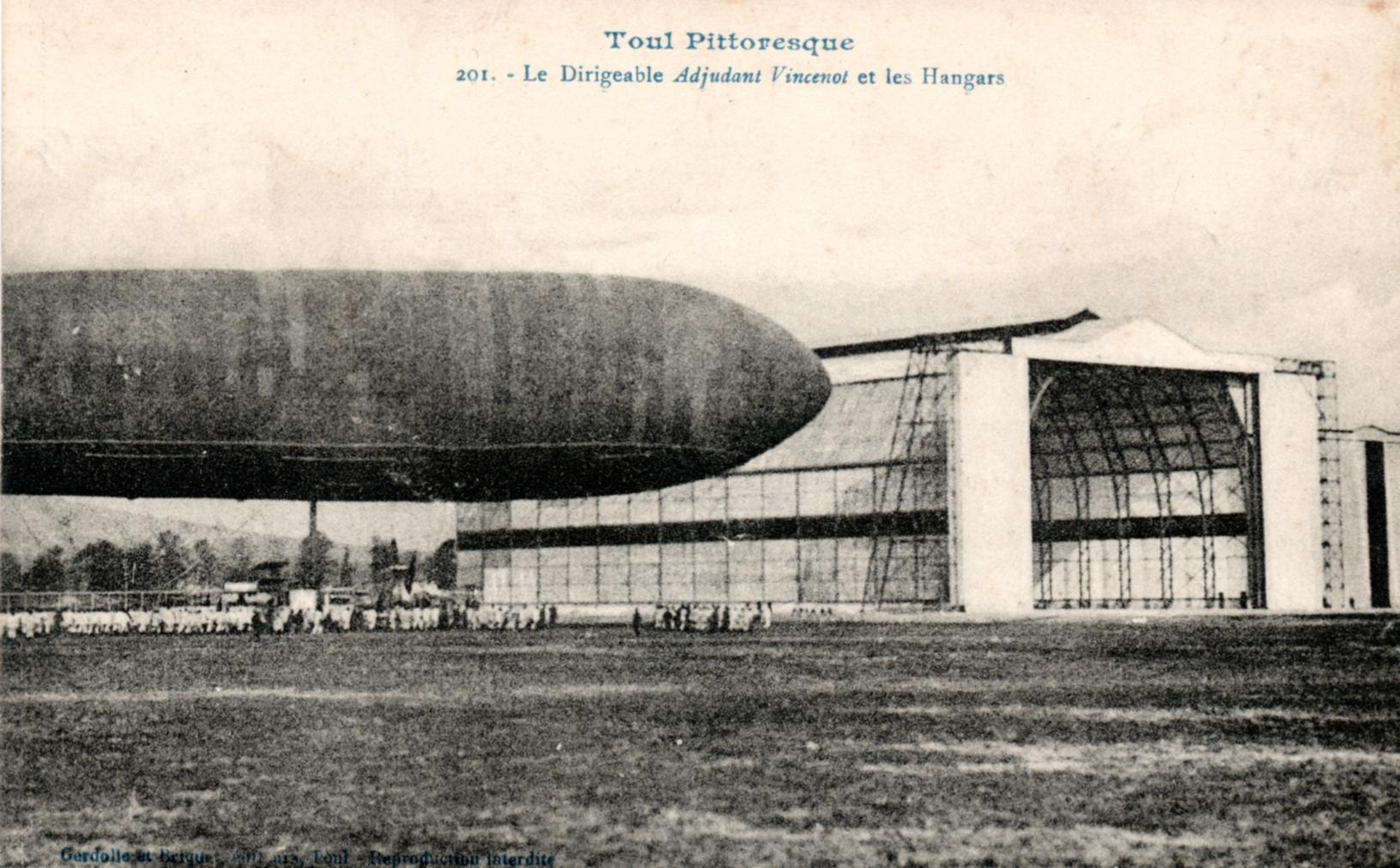 Adjudant-Vincenot airship at Toul in 1914 - vintage postcard